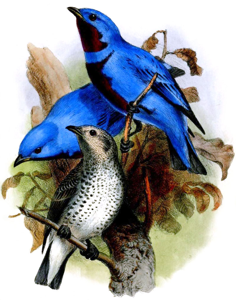 Lovely Cotinga, Cotinga amabilis, lithograph